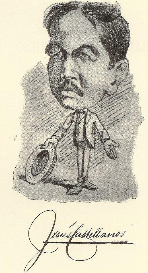 Self portrait caricature of Jesus Castellanos